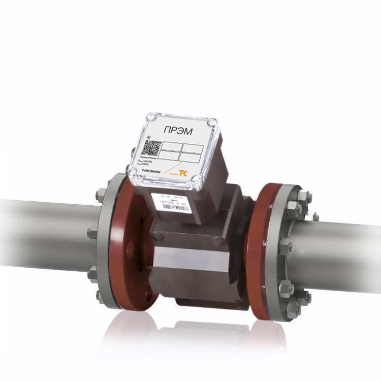 PREM